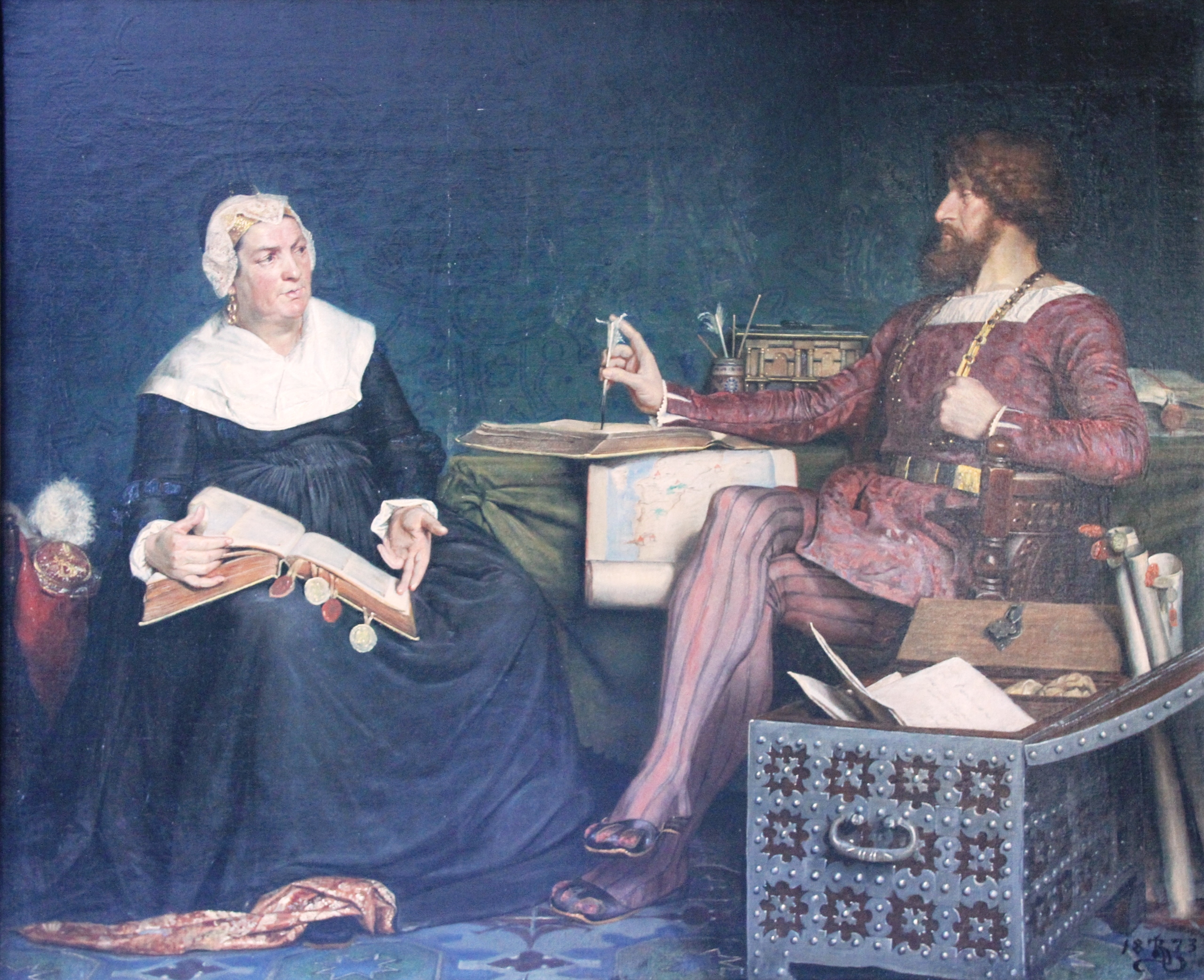 Kristian Zahrtmann, painting of a scene where Sigbrit reviews the custom accounts together with king Christian II of Denmark